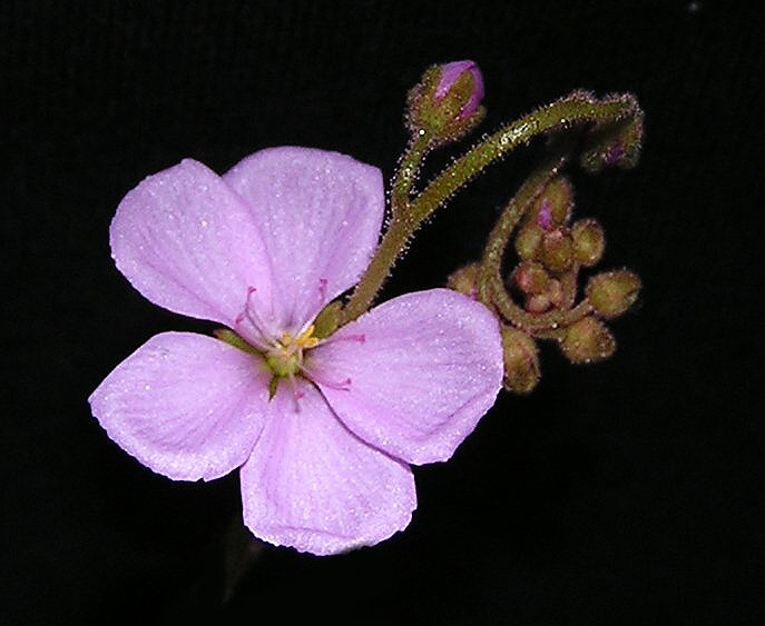 Drosera graomogolensis